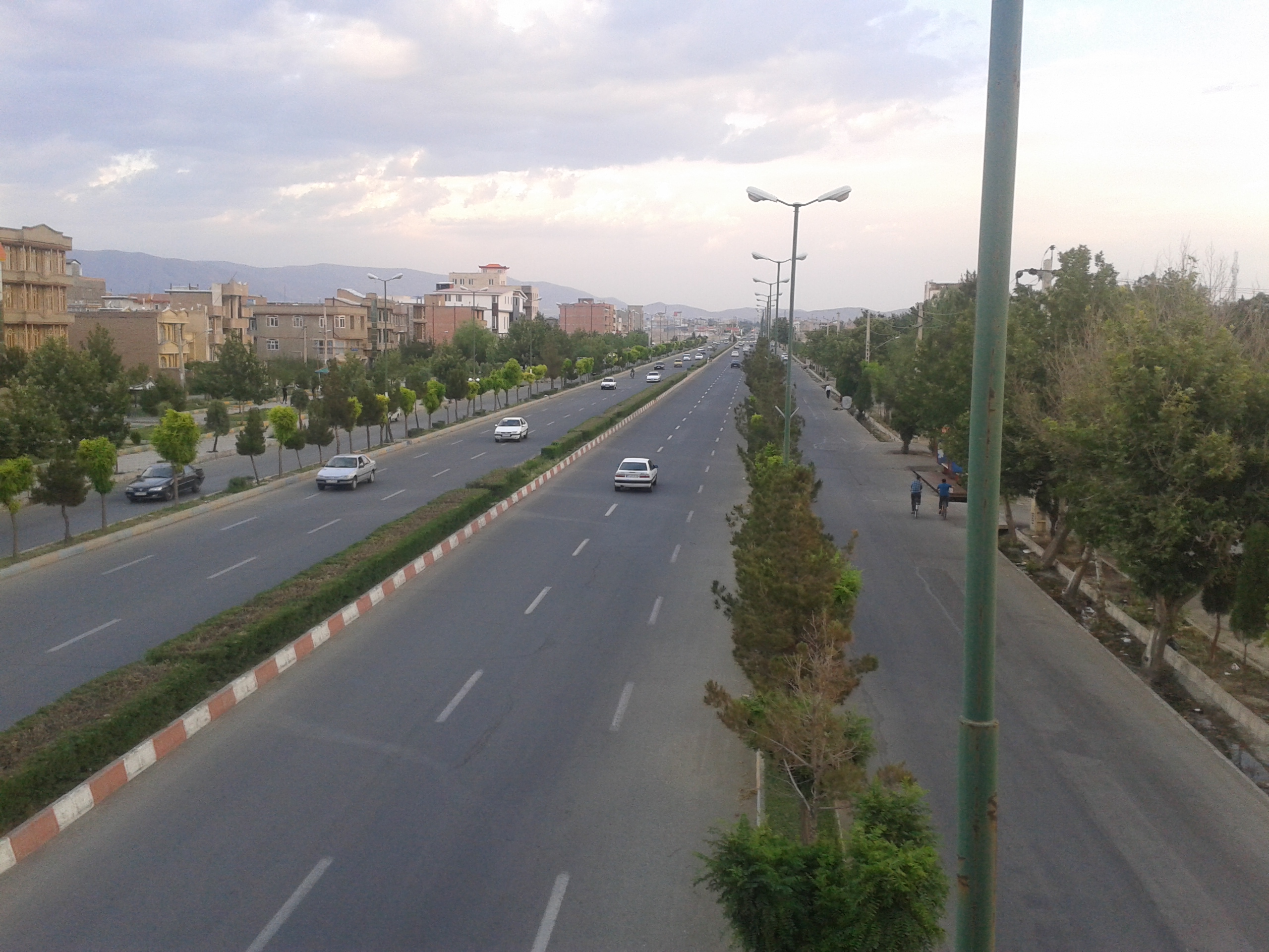 salmas city